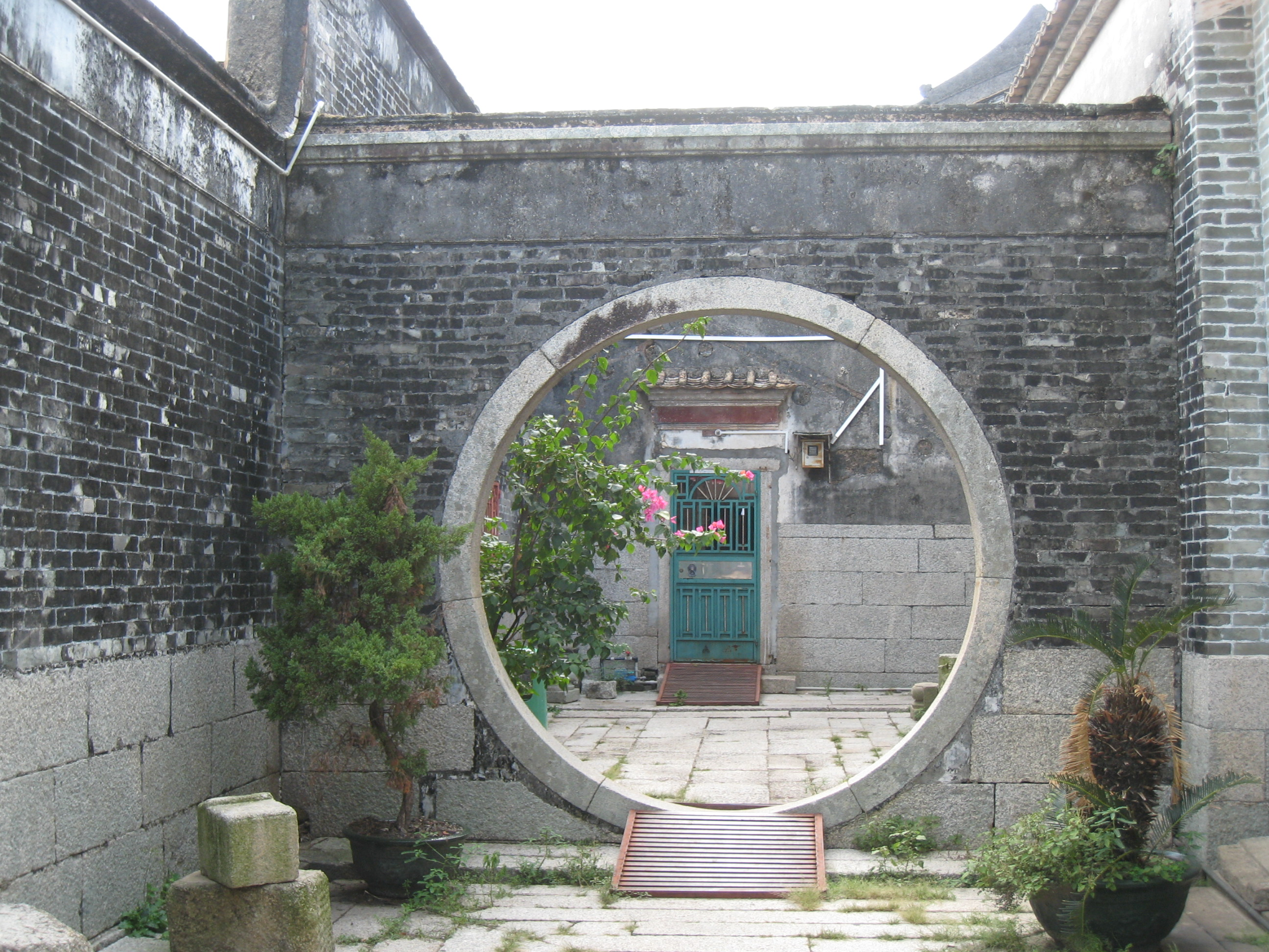 a round shaped entrance in Laifu